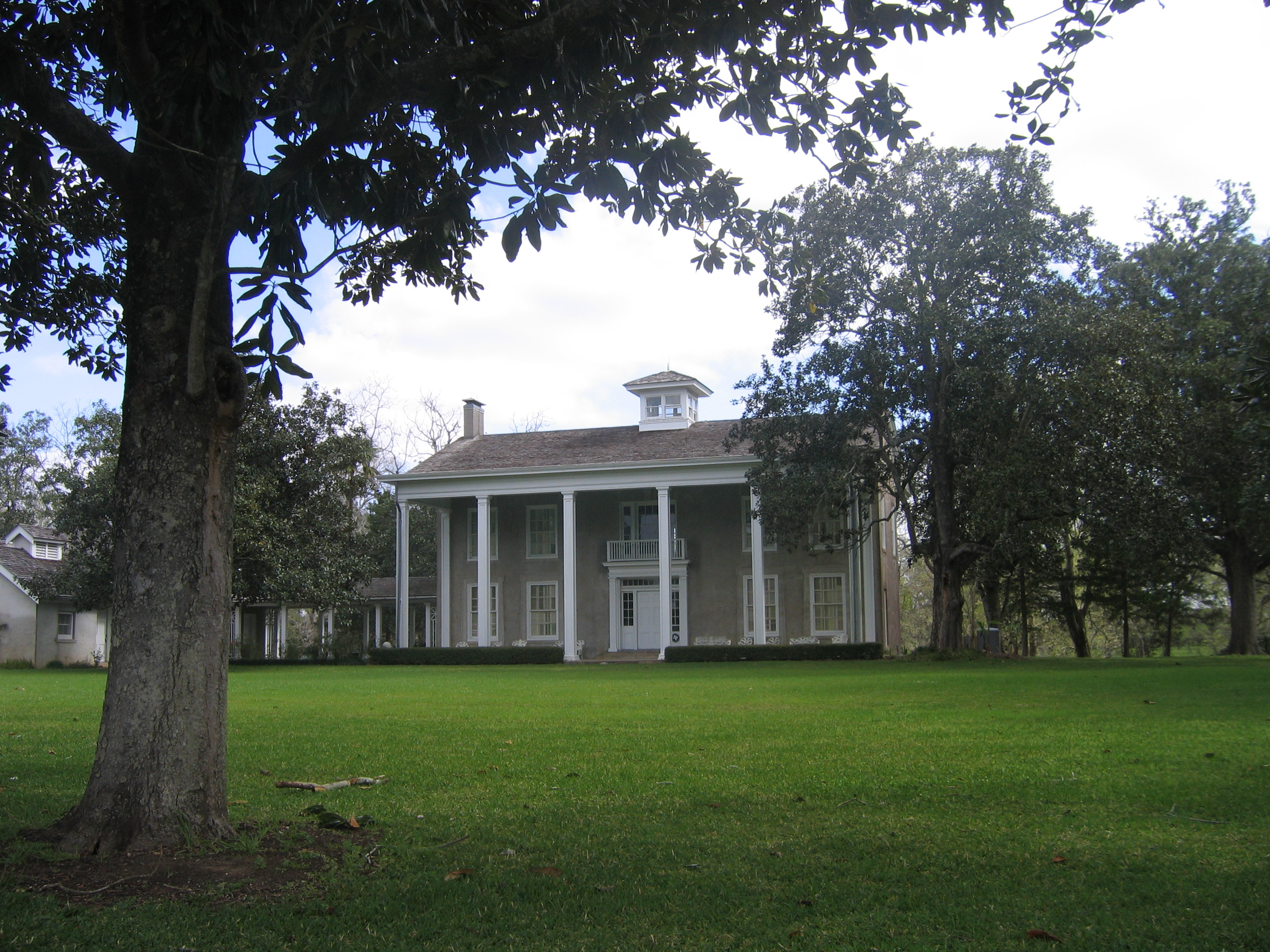 This is the front entrance of the mansion at Varner-Hogg Plantation State Historical Site in West Columbia, Texas. Originally the back of the house, this was converted to be the front entrance in the 1920s by Ima Hogg. The building to the left that is connected by the breezeway is the kitchen and dining room. I took this picture.